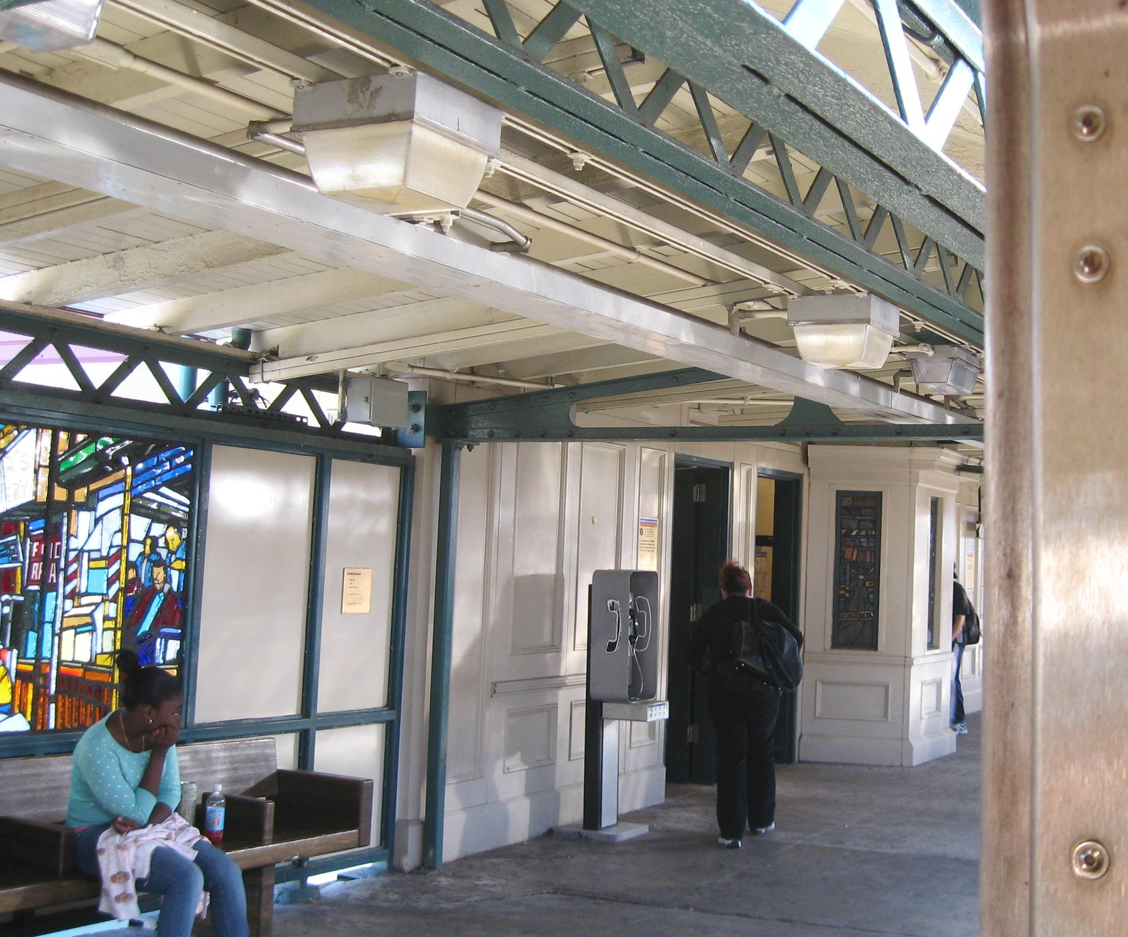 Looking southeast at northbound platform of Freeman Street (IRT White Plains Road Line) on a mostly sunny midday